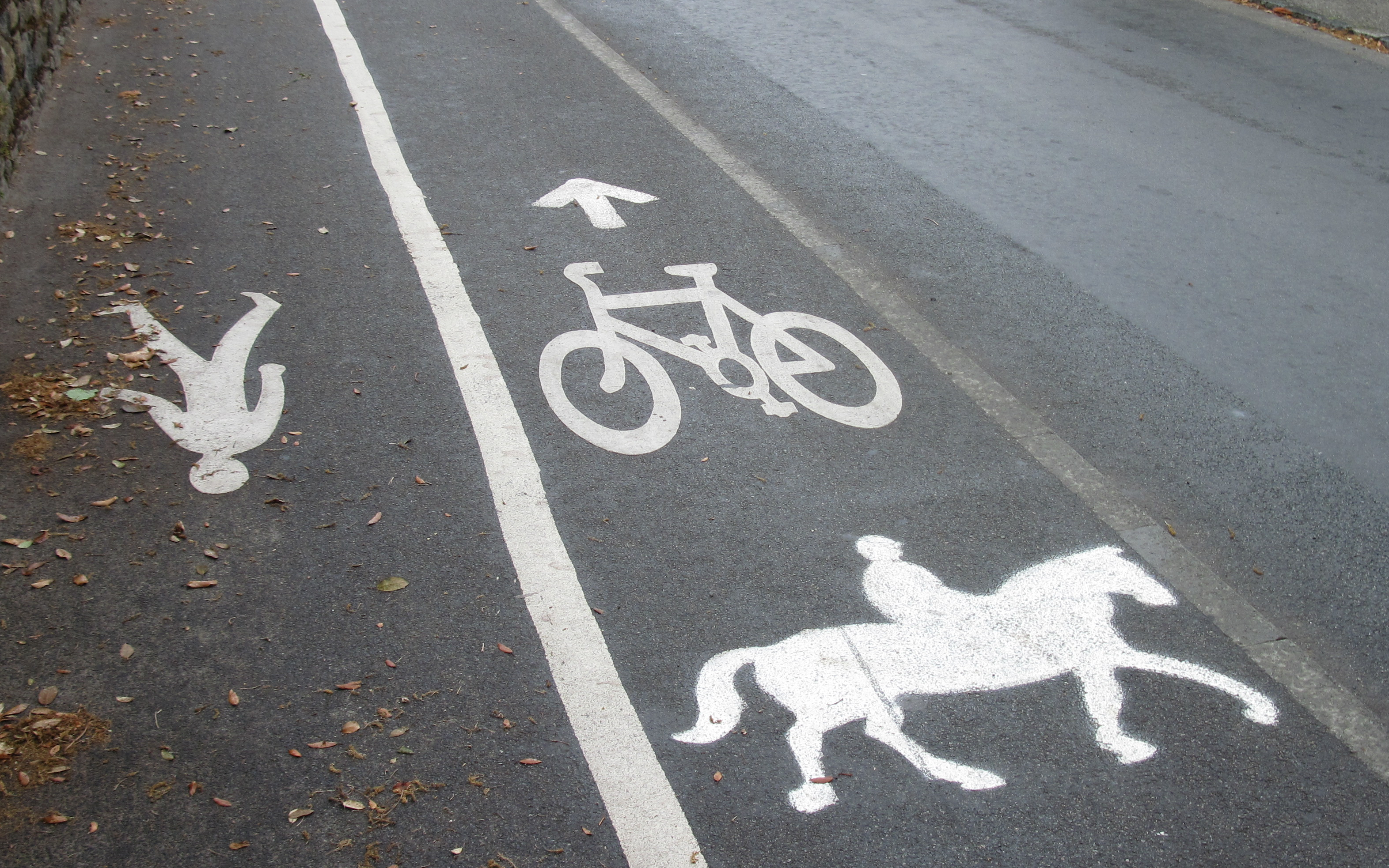 Guernsey, 2 July 2010: road signs